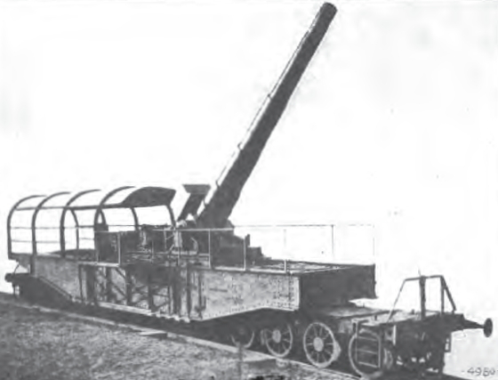 24 cm SK L/40 "Theodor Karl" on the original railroad mount